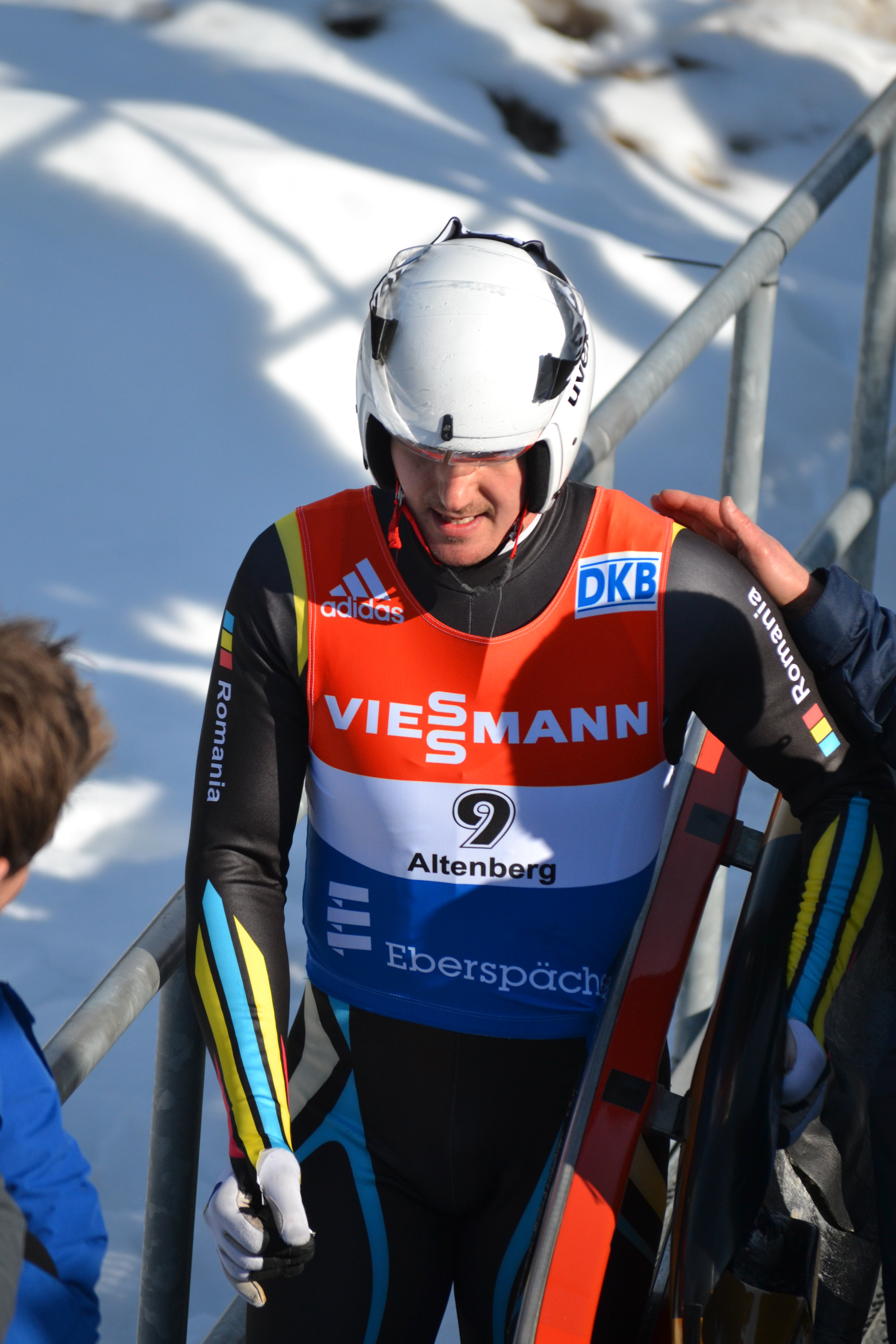 Luge world cup race season 2014/15 in Altenberg/Germany, 19th to 22nd Februar 2015. Day 3: Mens race.